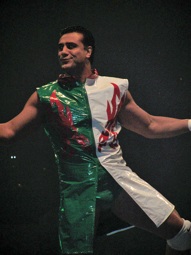 Alberto Del Rio @ Adelaide, South Australia 'Smackdown' house show on the 3rd of August '10